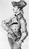 Domenico Angelo Malevolti Tremamondo (1716-1802), Italian fencing master